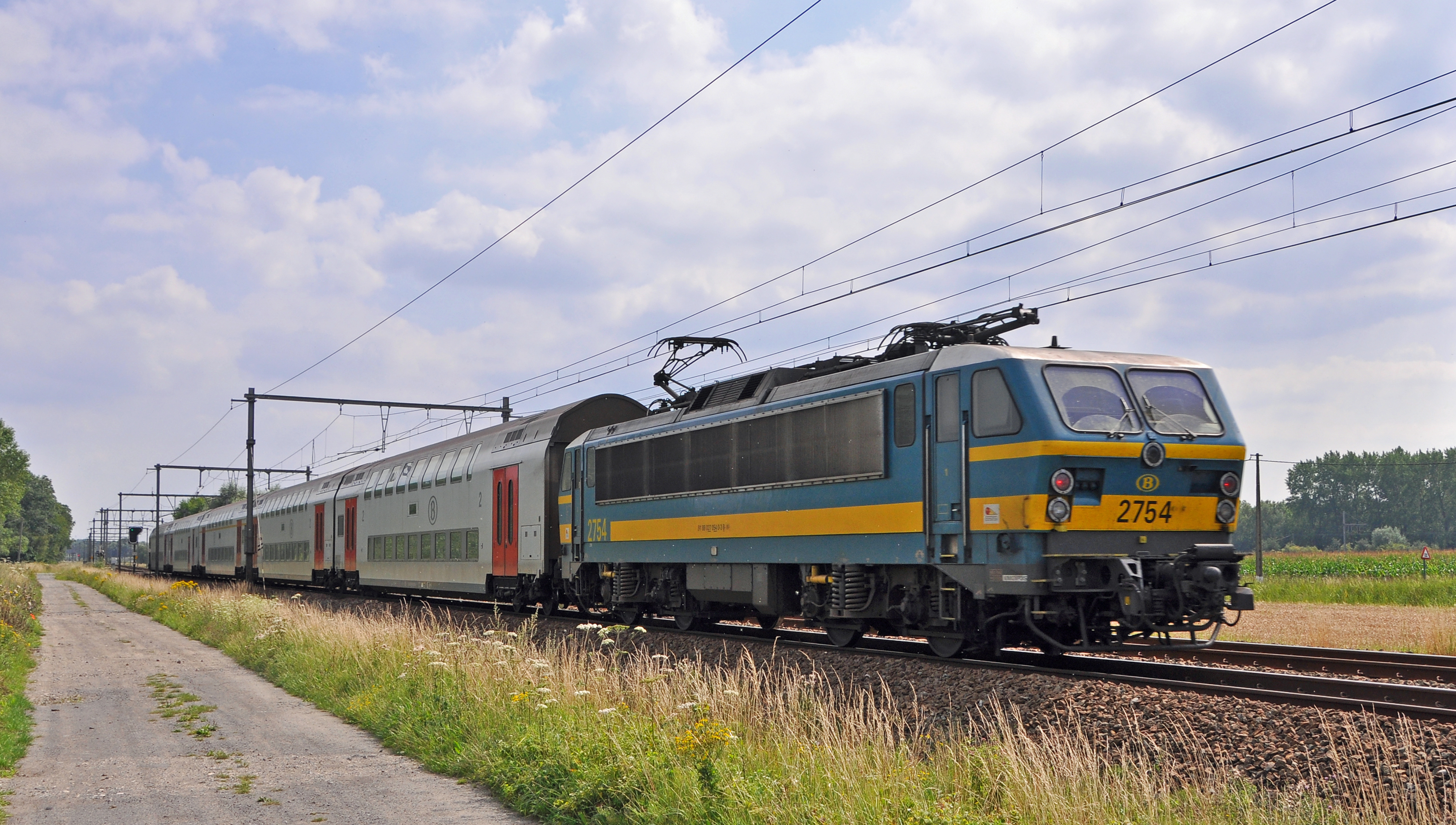 Belgian Class 27 locomotive